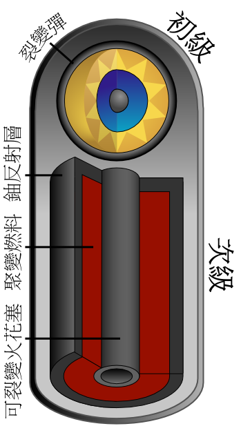 The schematics of Teller-Ulam design of the hydrogen bomb with simplified chinese keys.